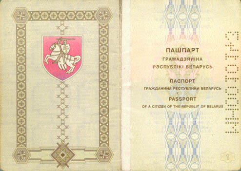 Former Belarusian Passport